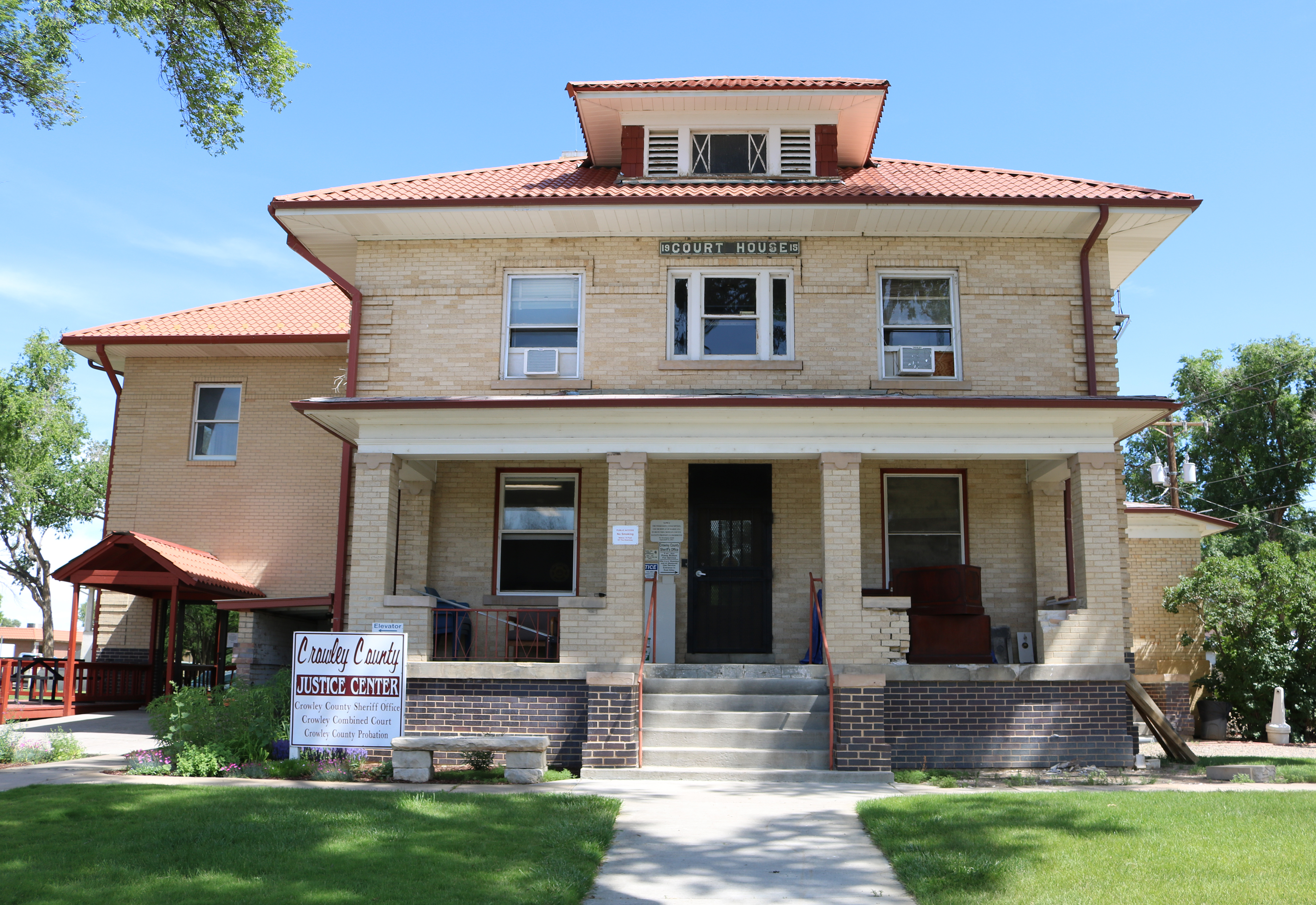 The Crowley County Justice Center, located at 110 East 6th Street in Ordway, Colorado. Other Crowley County government offices are located in the attached building on the left. The justice center functions as the county courthouse. The Crowley Combined Court, within the Justice Center, is part of Colorado's 16th Judicial District.